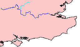 River Thame (cyan) and Thames (blue). Graphic by Keith Edkins